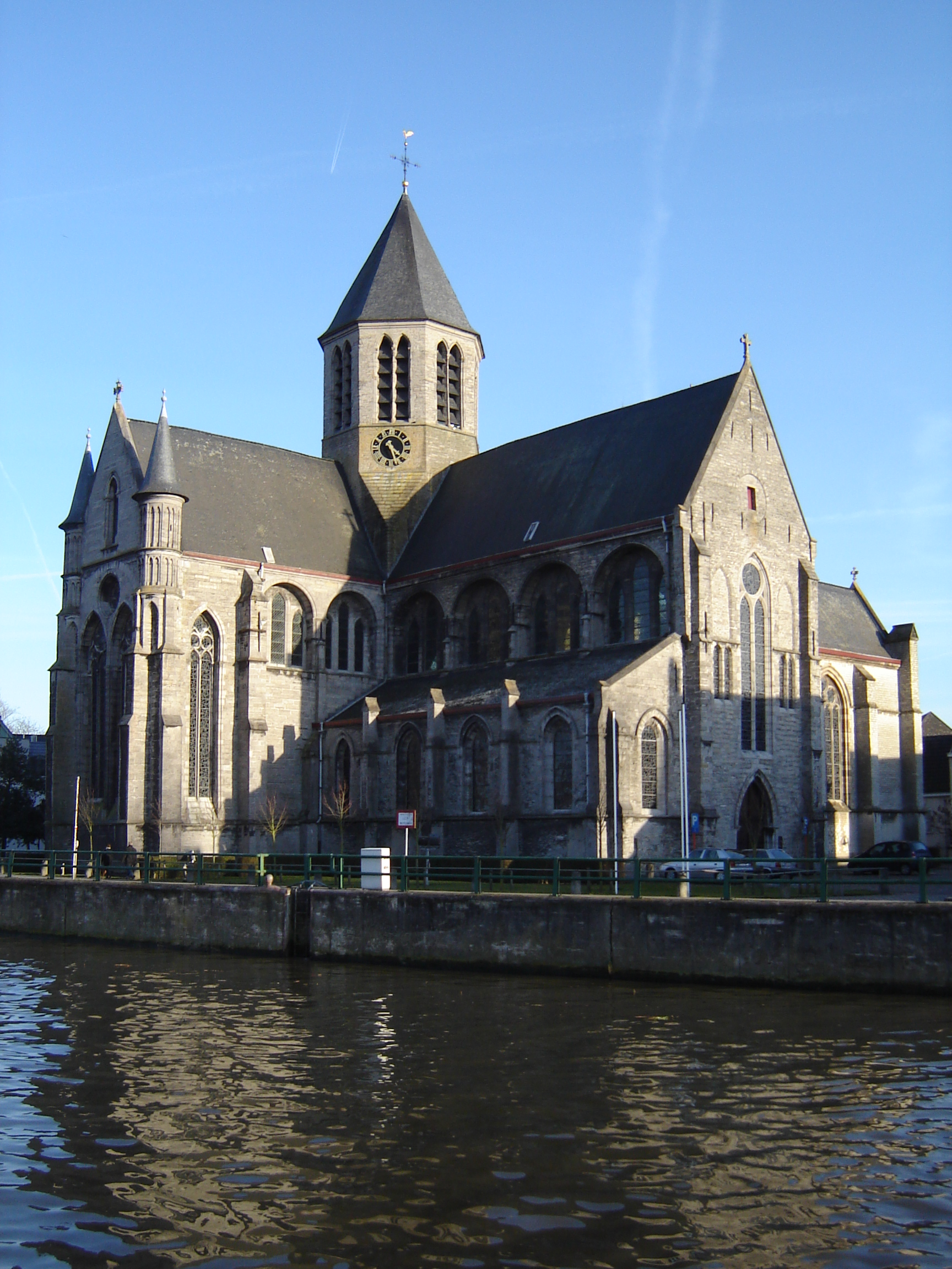 Church of the Nativity of Mary , of Pamele in Oudenaarde. Oudenaarde, East Flanders, Belgium.